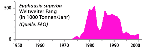 catch of krill from FAO data composed by Uwe Kils.